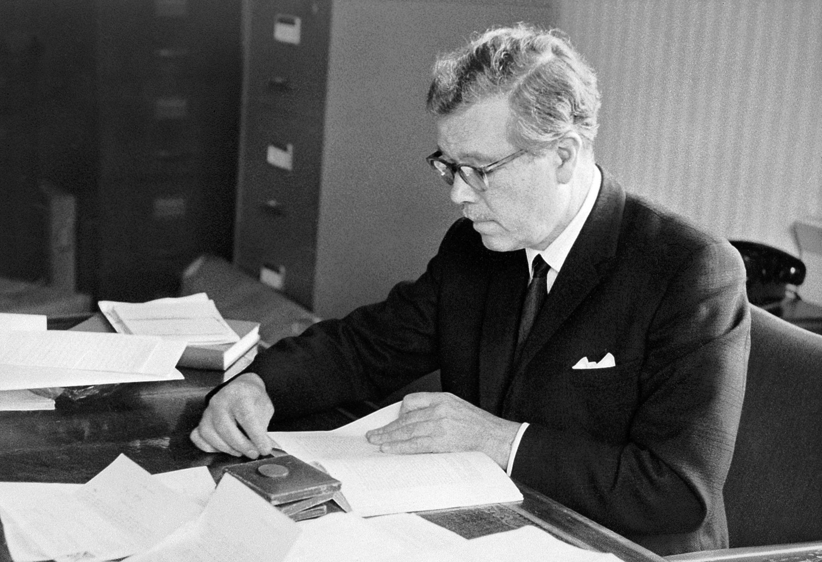 Portrait of F.N.L. Poynter. Photograph by Grace Goldin, 203 Millbrook Road., Hamden, Conn., n.d. Wellcome Images Keywords: Frederick Noel Lawrence Poynter